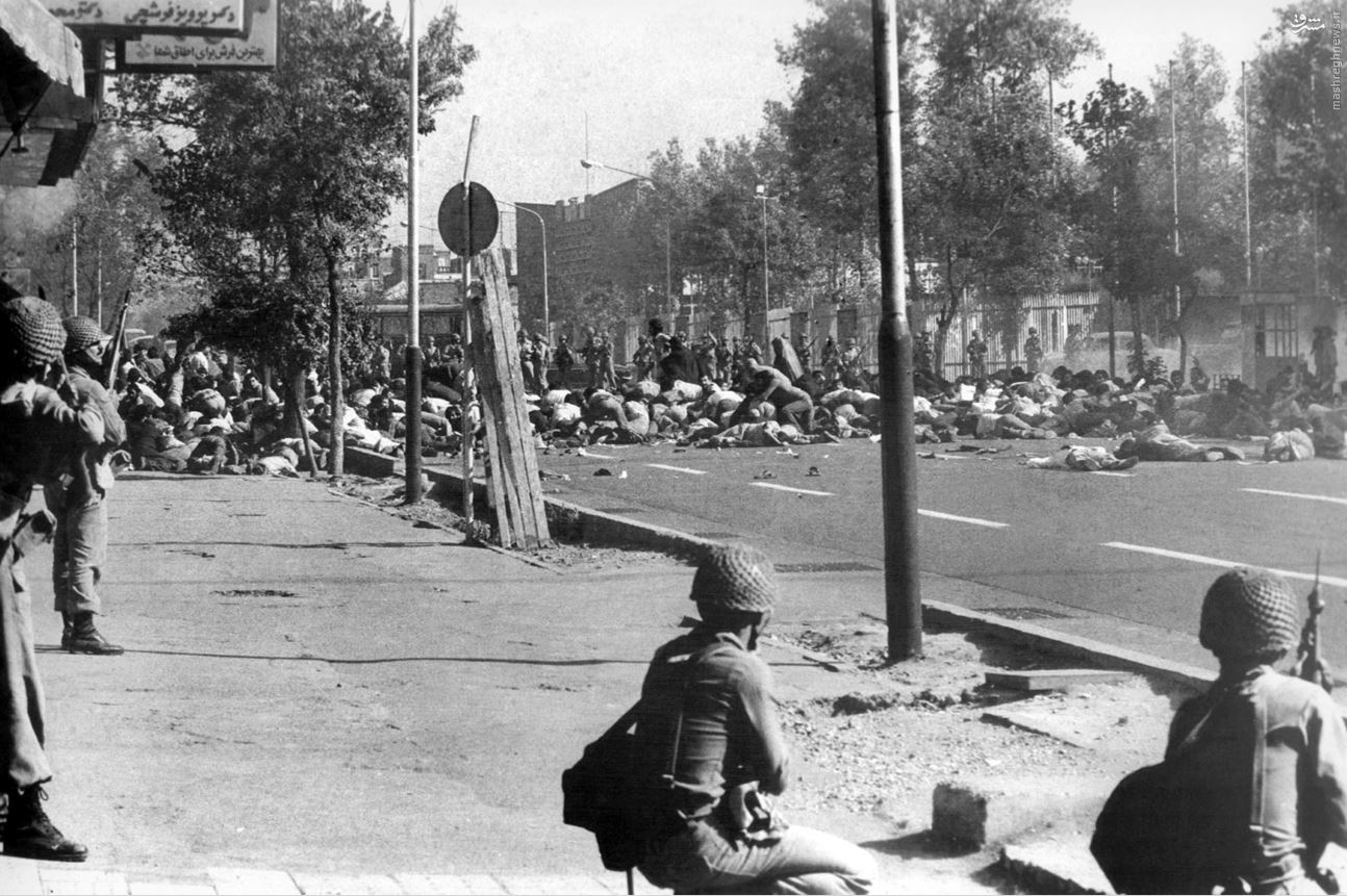 This picture was frontpaged by Iranian newspaper Kayhan, Thursday, February 22, 1979, and caption stated it was taken in Jaleh square, Tehran, September 8, 1978.